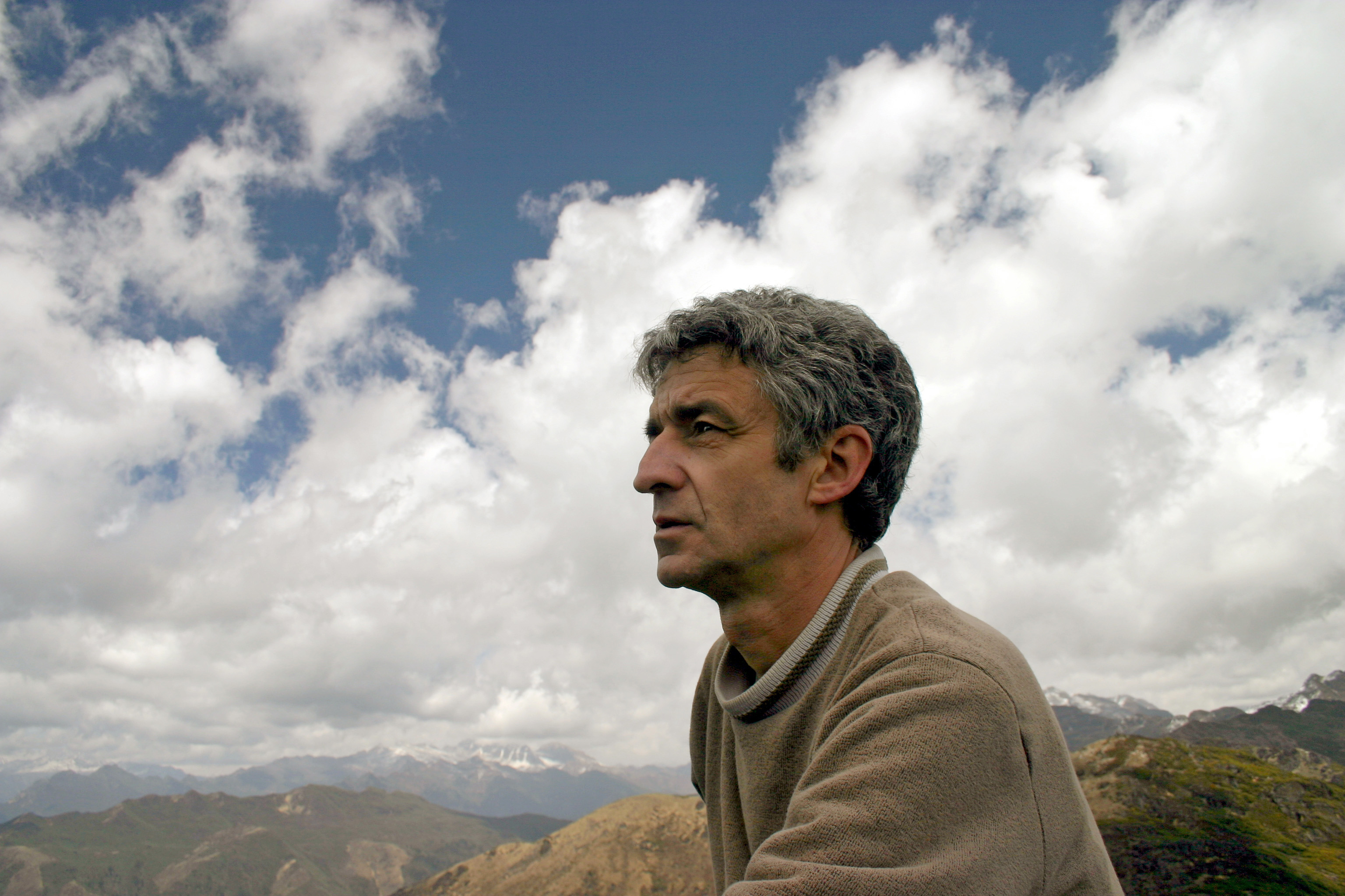 Jean-Marie Hullot in Bhutan in 2004.